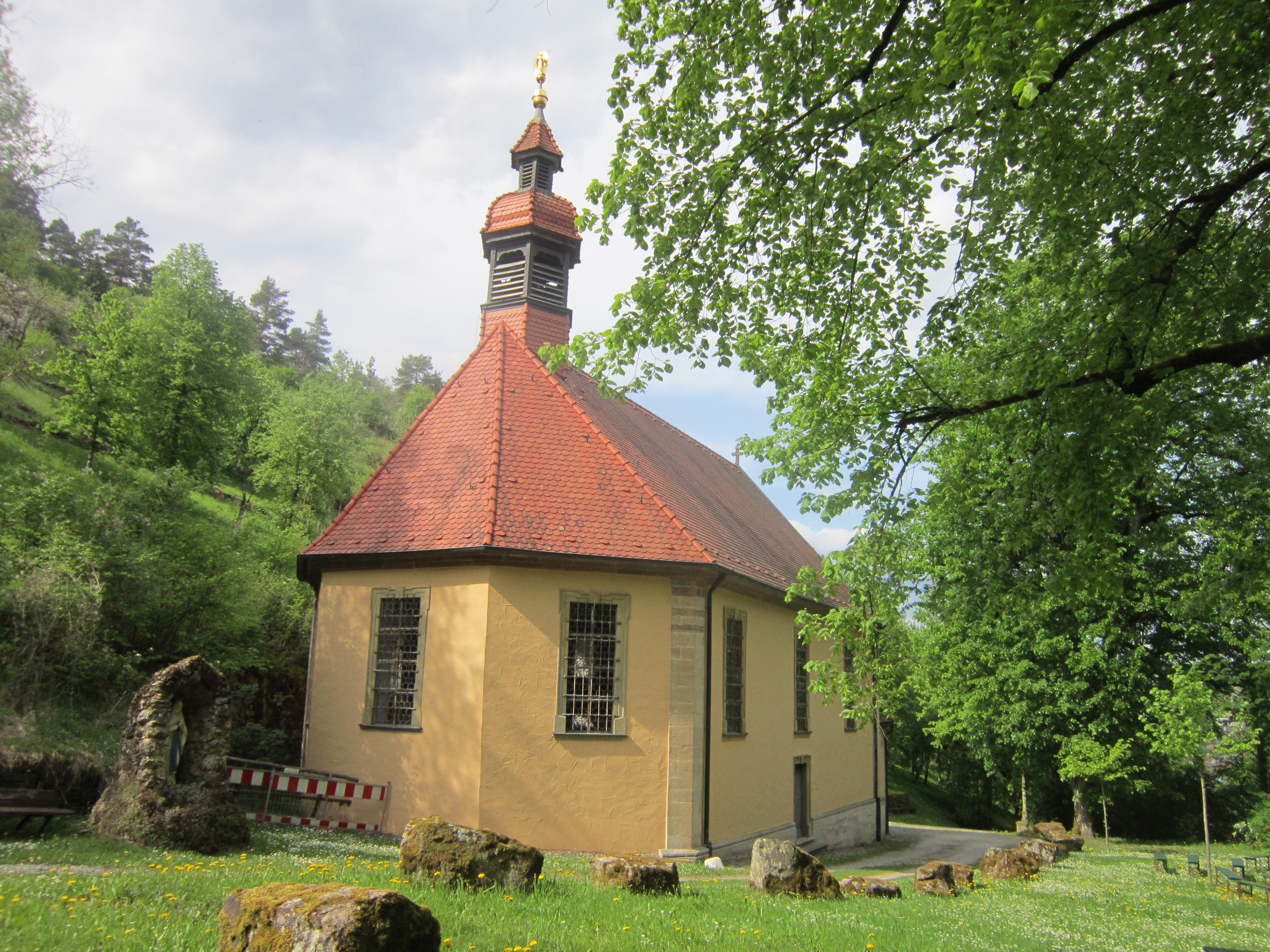 Maria Steinthal Chapel in the German town of Hammelburg in Lower Franconia (Bavaria).